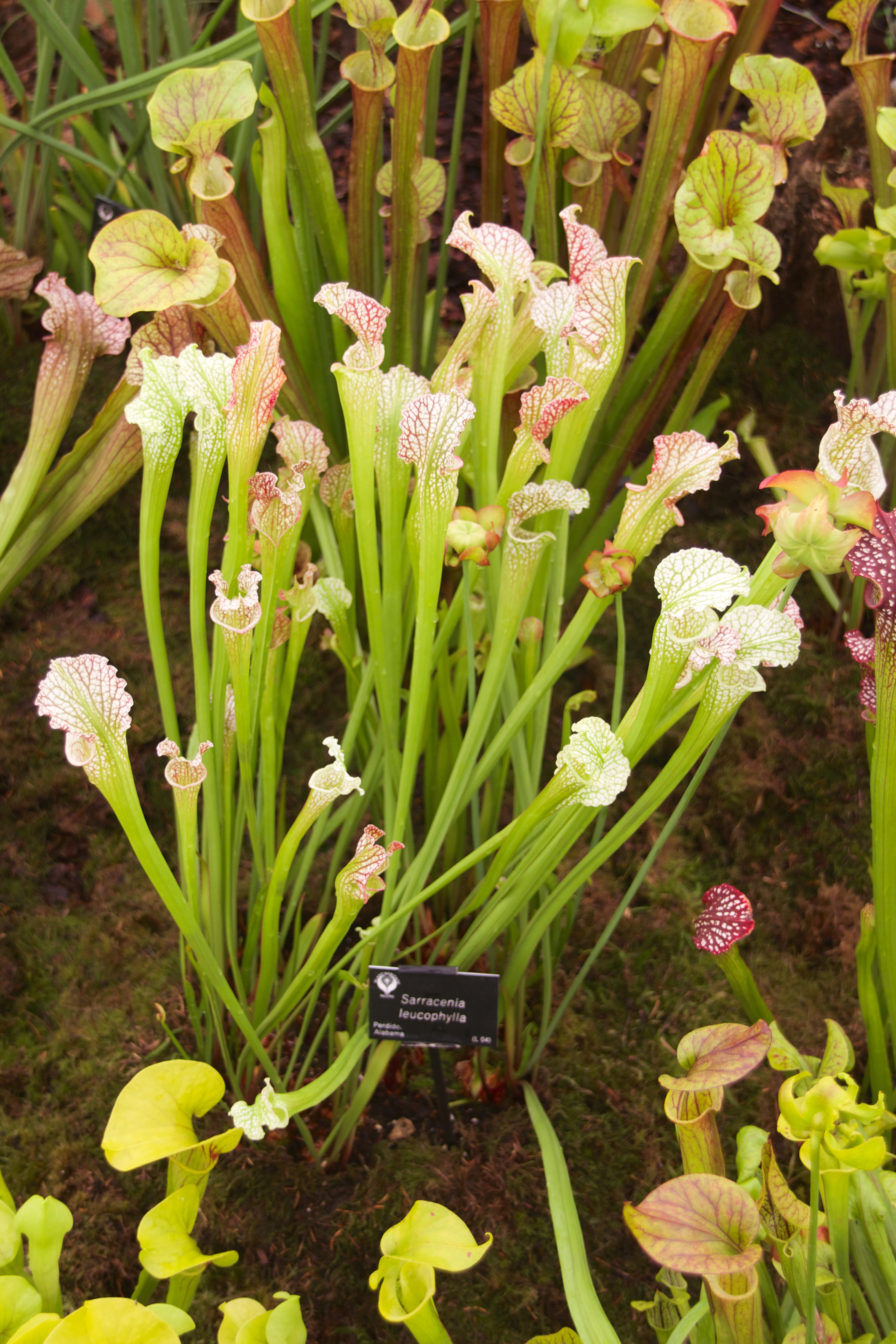 RHS Flower Show Tatton Park. Sarracenia leucophylla.